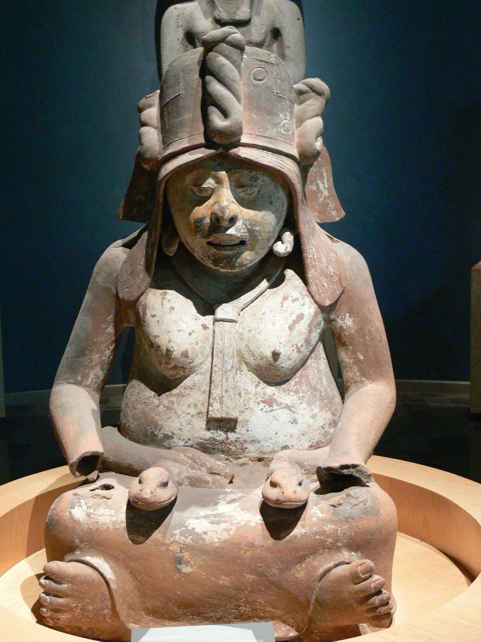 National Museum of Anthropology in Mexico City. Godess Chihuateteo.